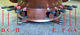 Pedals of the concert or "pedal" harp.